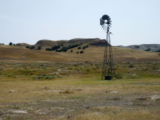 A working windmill in the heart of Indian Creek Proposed Wilderness on Buffalo Gap National Grassland.